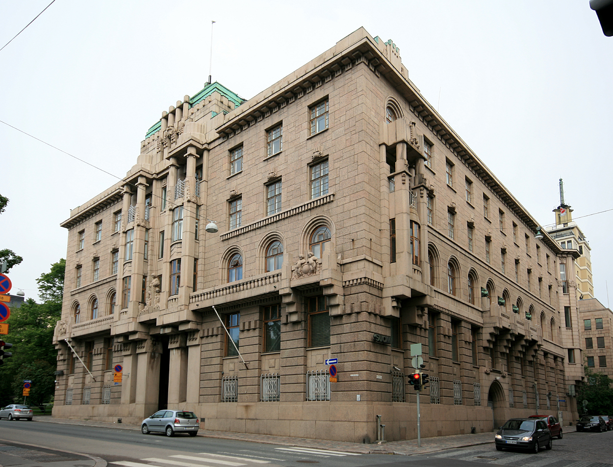 Lönnrotinkatu 5 / Yrjönkatu 22, Helsinki. Architect: Armas Lindgren. Built 1911 for Suomi Mutual Life Assurance Company.